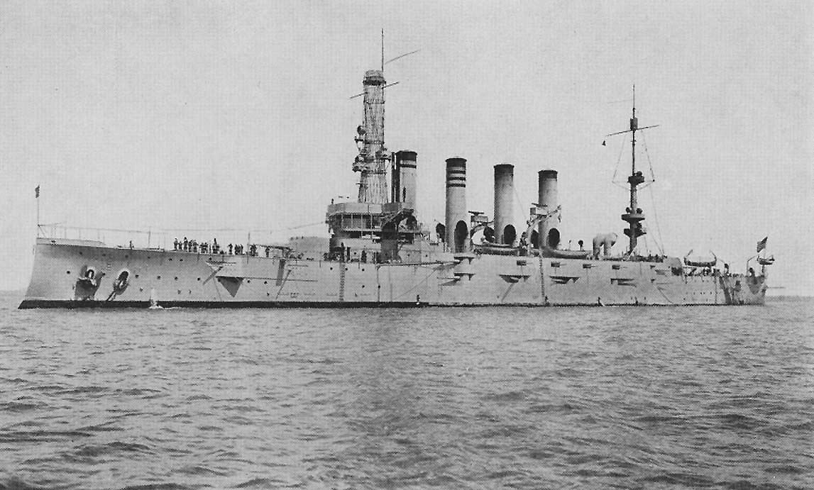 US Navy photo taken from NavSource (